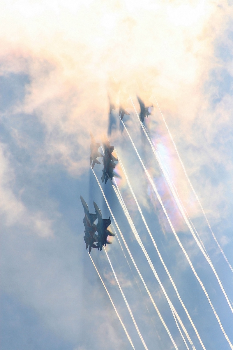 Strizhi and Russian Knigts group flight on MAKS